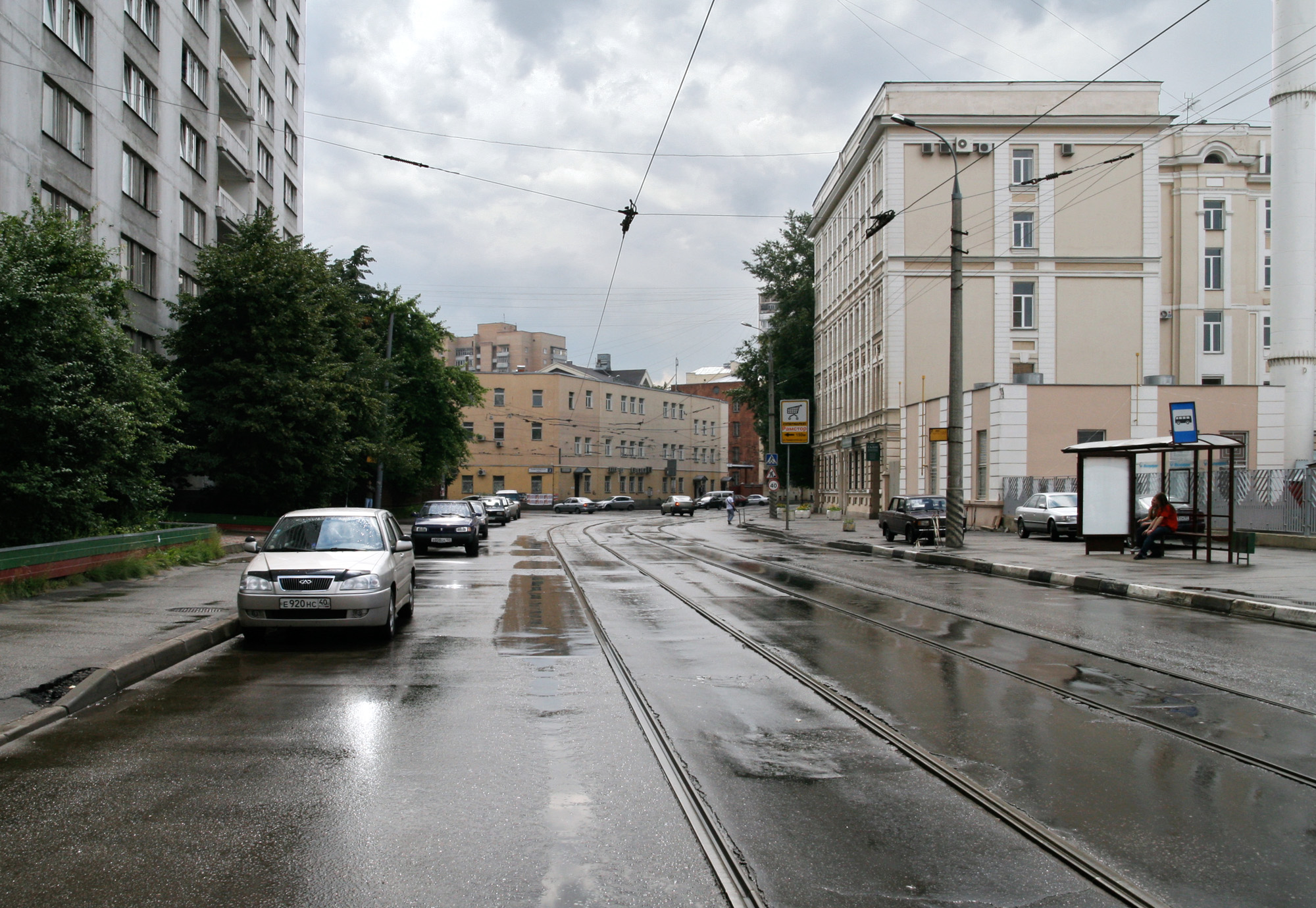 obrastsova street moscow